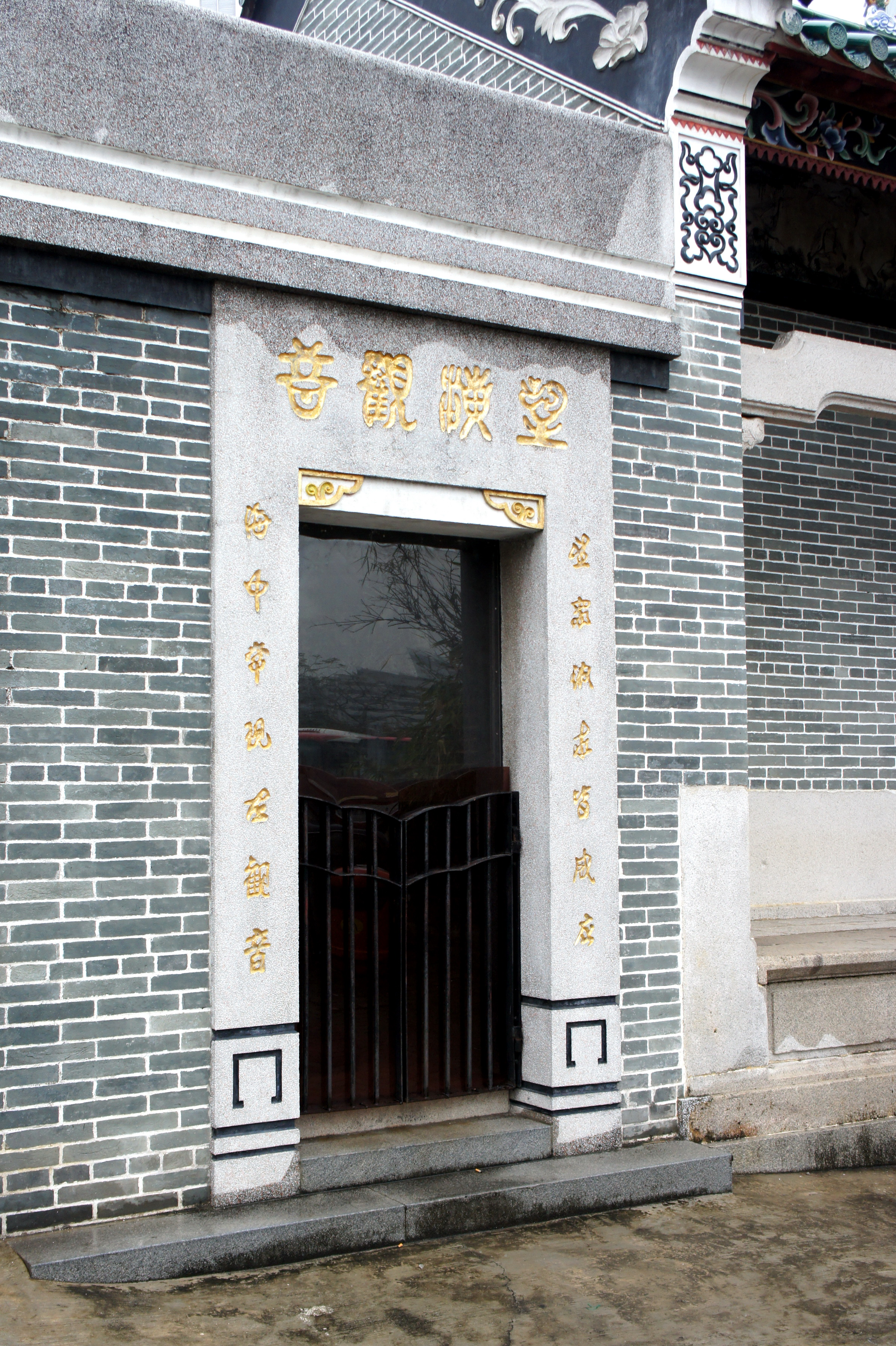 Tam Kung Temple, Shau Kei Wan, Hong Kong.